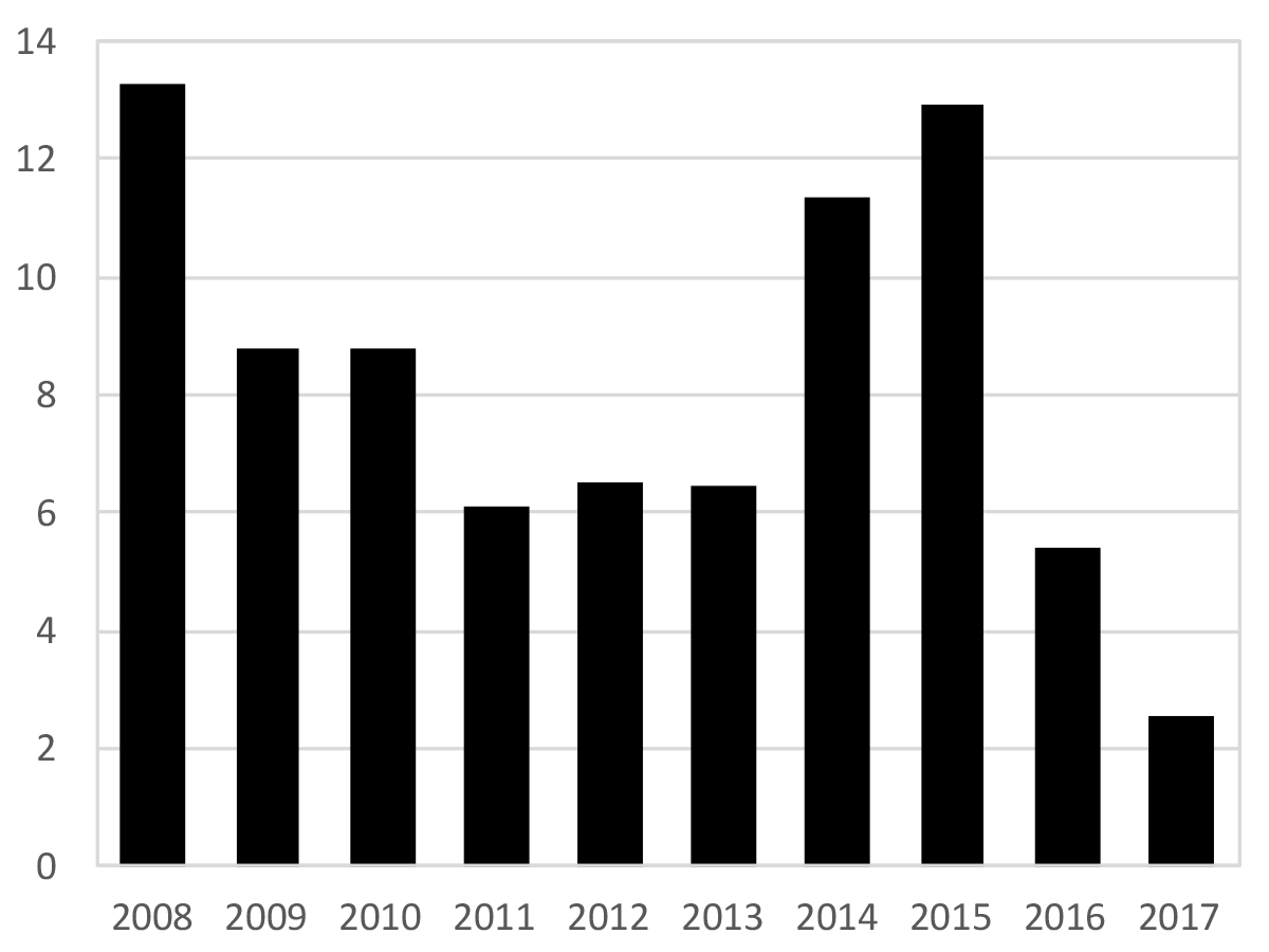 Historic Inflation in Russia for 2008-2017, raw data according to inflation.eu